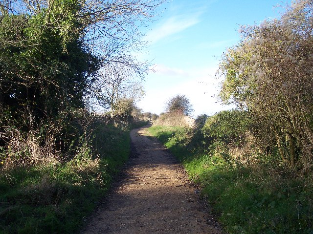 Sabrina Way Crossing Nottingham Hill. The Sabrina Way Gloucestershire section was opened by Princess Anne in 2002. It is a horse riding route developed by the BHS and Ride UK. see